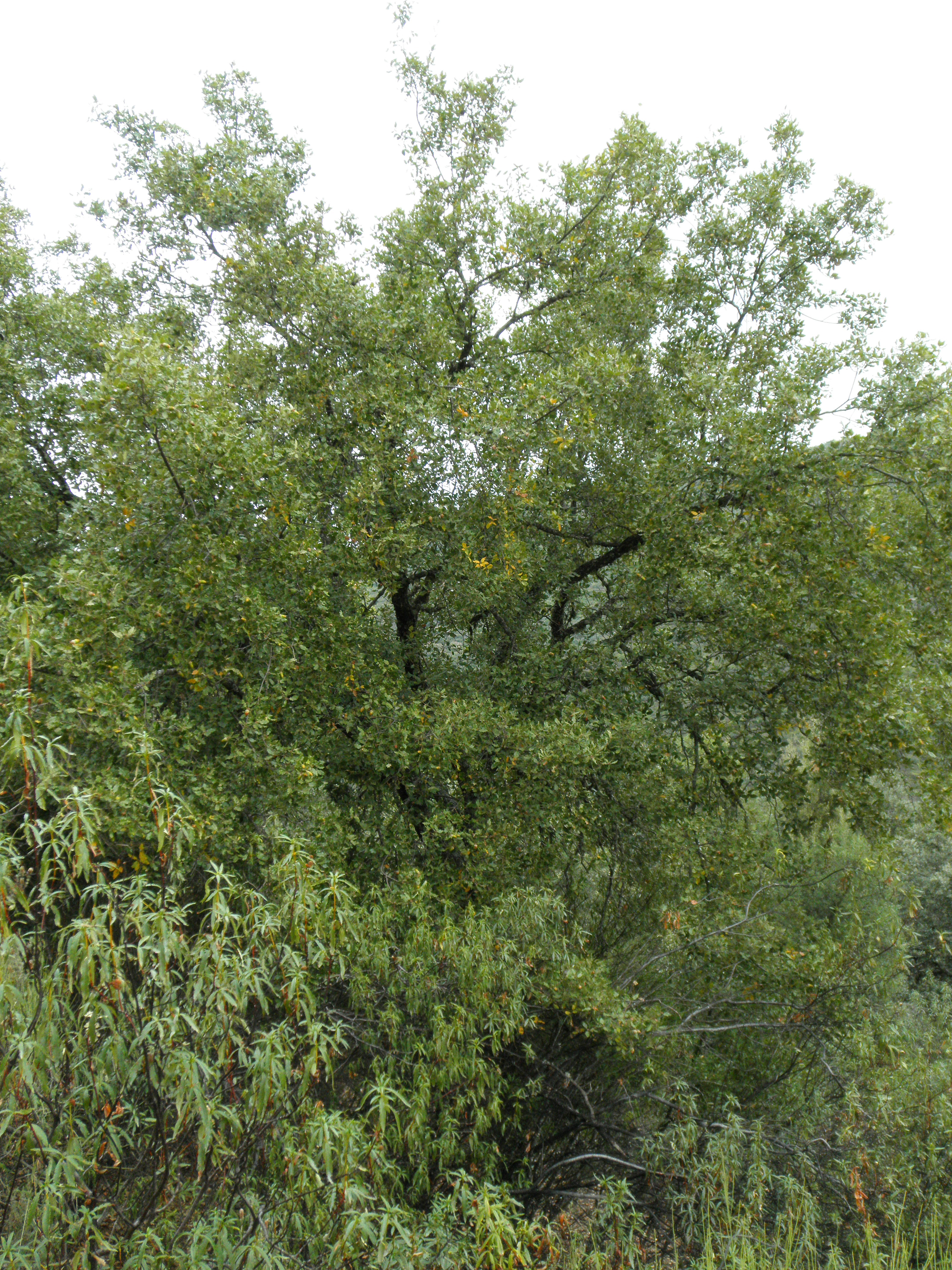 Quercus canariensis habit, Sierra Madrona, Spain